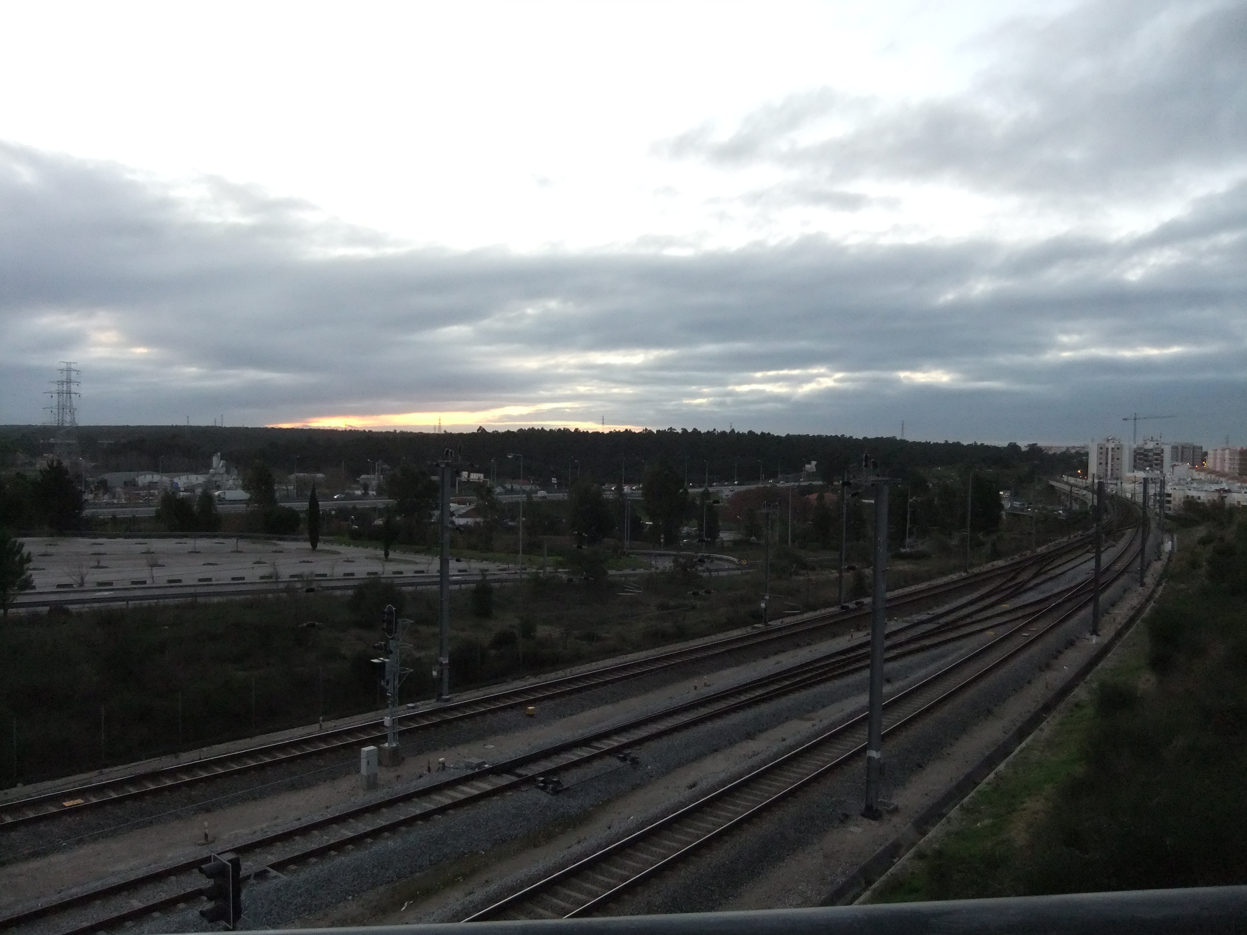 Near fogueteiro train station, gloomy sunset